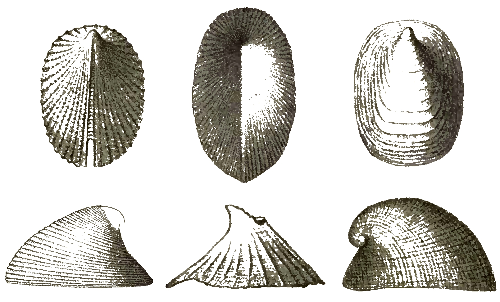 Cocculinidae various examples